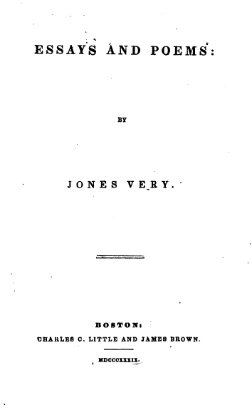 Title page from the first edition of Essays and Poems (1839) by American Transcendentalist Jones Very (1813-1880).